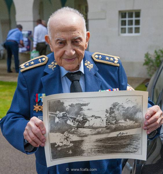 Show Ivan Otto Schwarz with the drawing by Pavel Rampir of the Alsterufer attack.